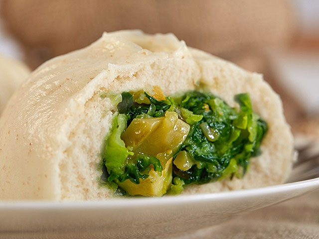 Inside of a Bao